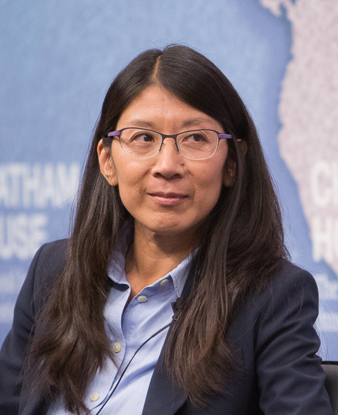 Dr Joanne Liu of Médecins Sans Frontières pictured during a discussion at Chatham House.